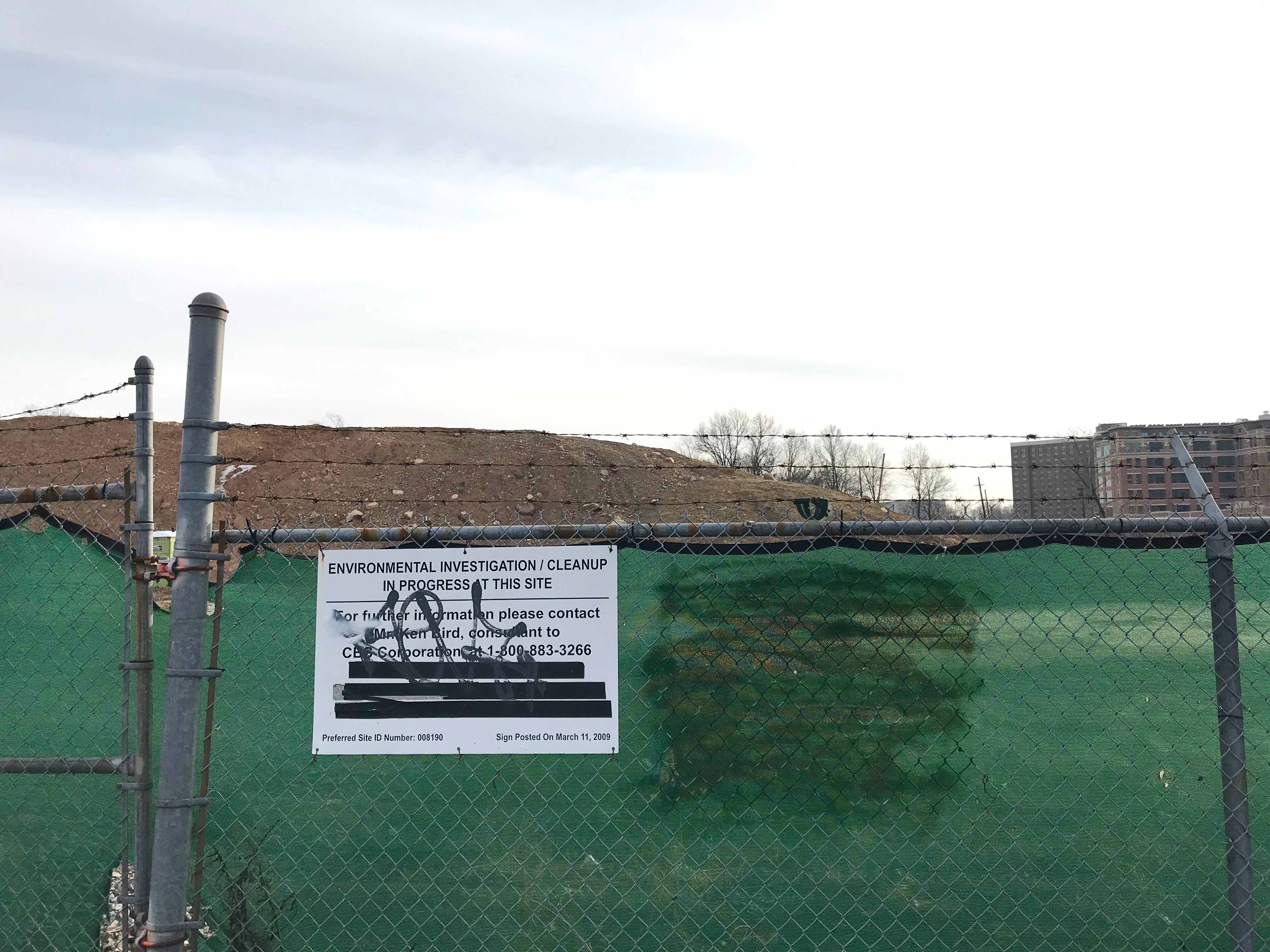 Westinghouse Lamp Plan site during the cleanup as of 2019